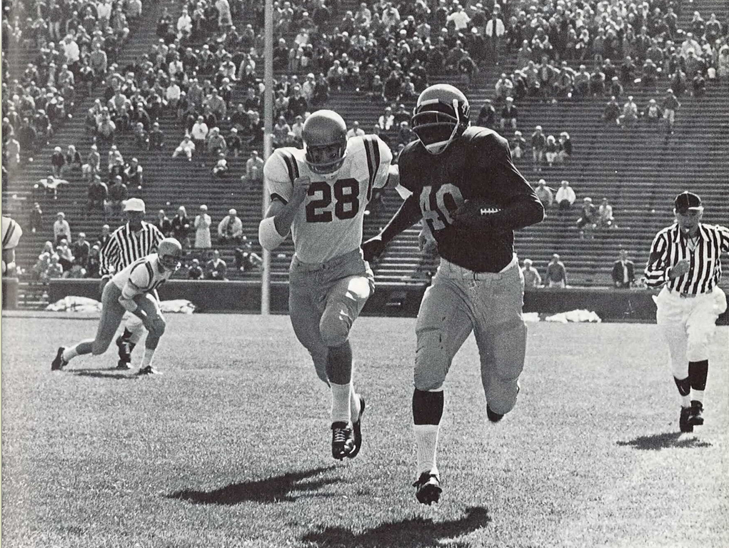 Photograph of Ron Johnson (R, number 40), University of Michigan running back in 1967 Navy game in which he rushed for 270 yards